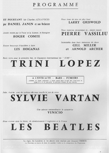 affiche de l'Olympia 1964